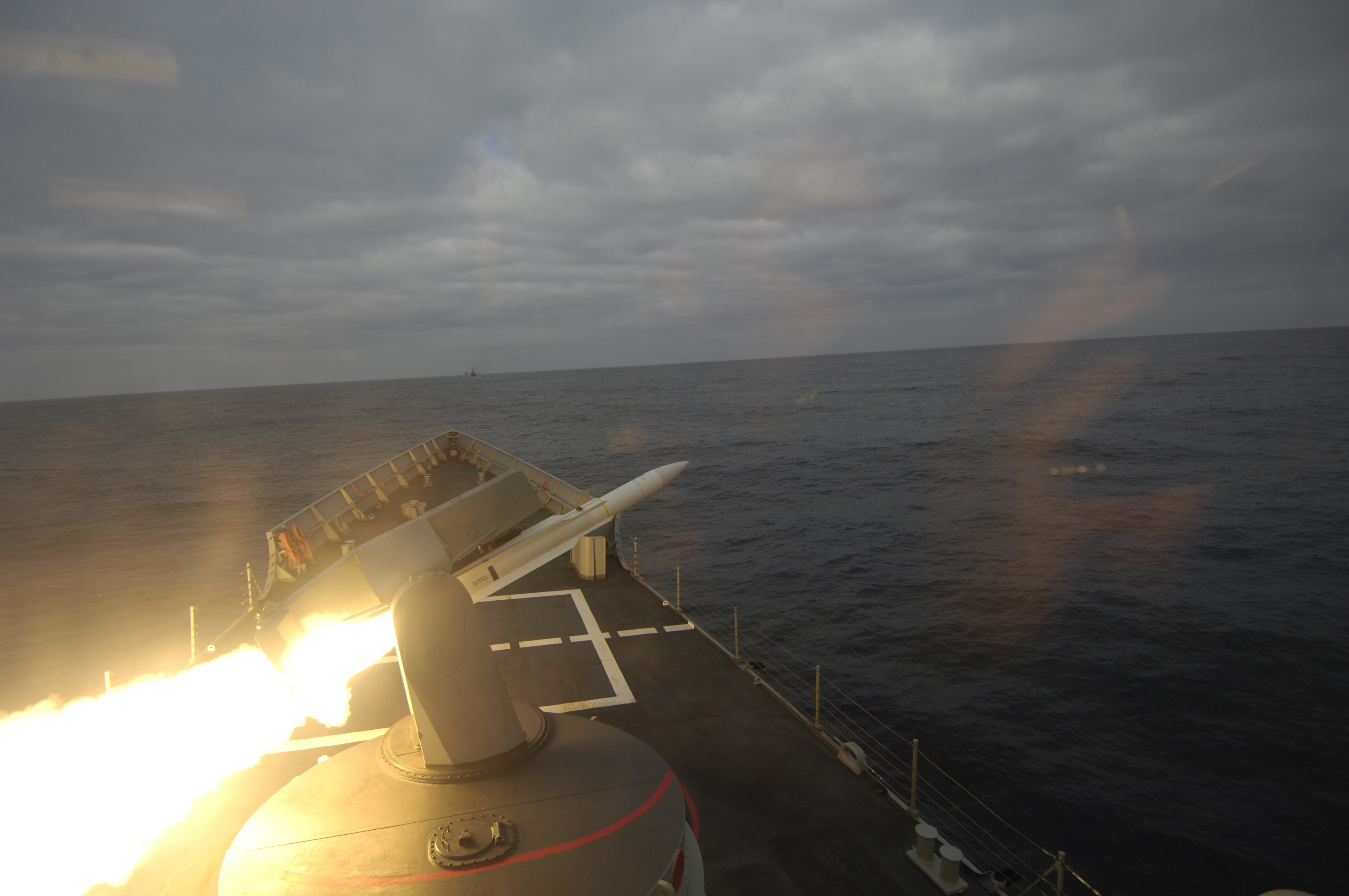 A SM1-MR standard missile fires from the deck of the Spanish navy frigate Canarias (F 86) during missile operations July 30, 2006, conducted as part of the Pacific phase of exercise UNITAS 47-06. UNITAS is an annual U.S. Southern Command-sponsored multinational exercise designed to enhance interoperability between participating navies, held in the waters around South America. This year’s Pacific phase includes navies from Chile, Colombia, Ecuador, Mexico, Peru, Spain and the United States.